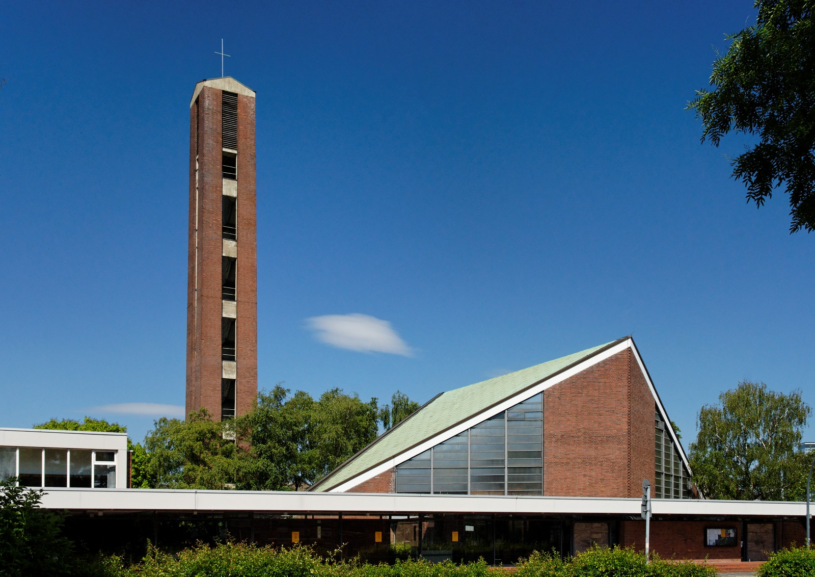 Philippus Church in Düsseldorf-Lörick, Germany